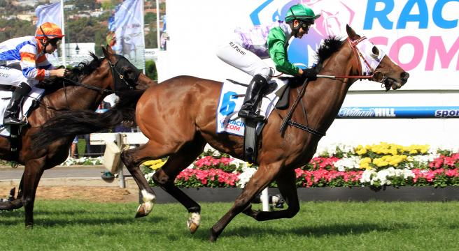 Michelle Payne won the Gold Cup but faces a suspension for the ride